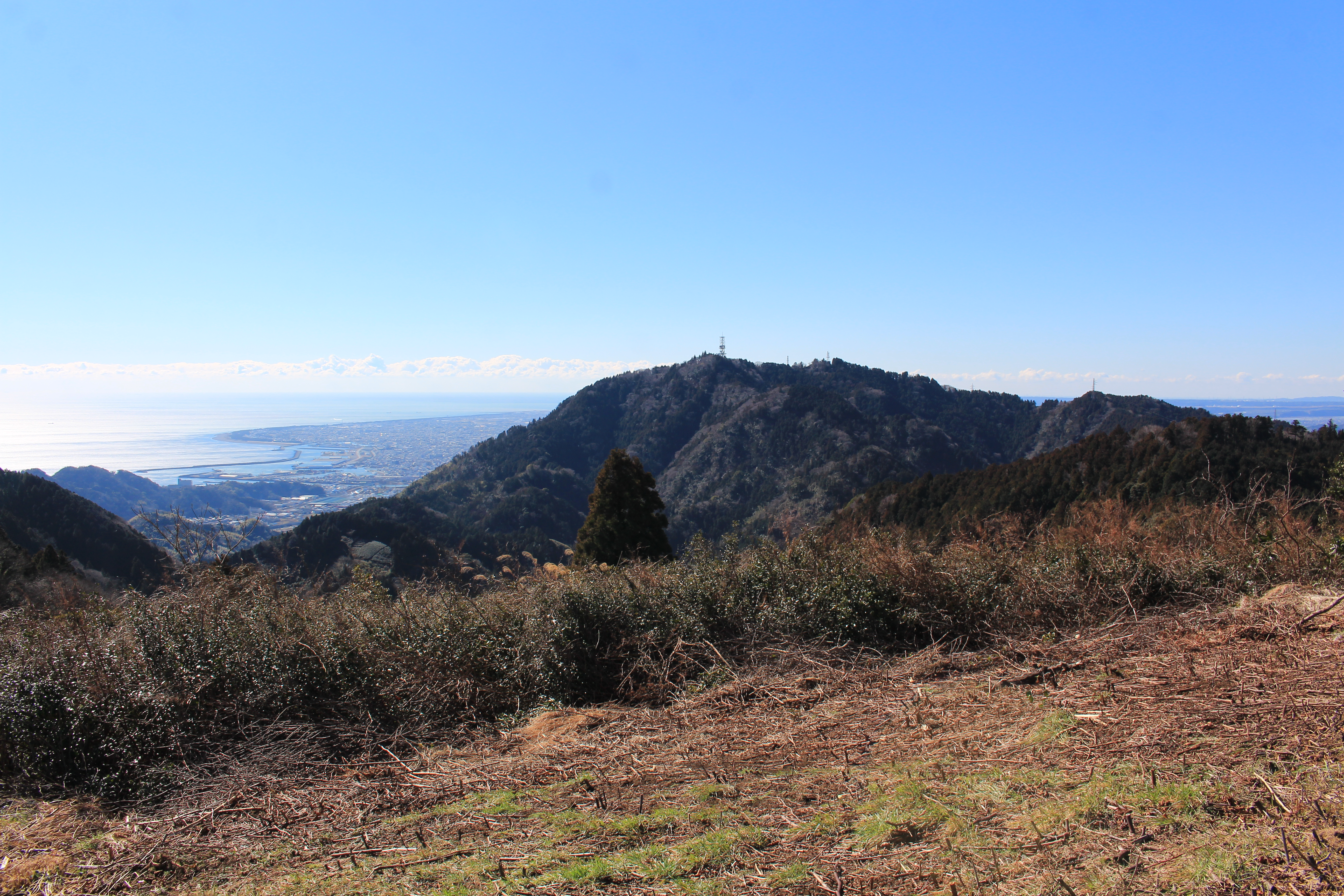 Mount Takakusa seen from Mount Mankan (Mankanhō) and Port of Yaizu, in Shizuoka prefecture, Japan.